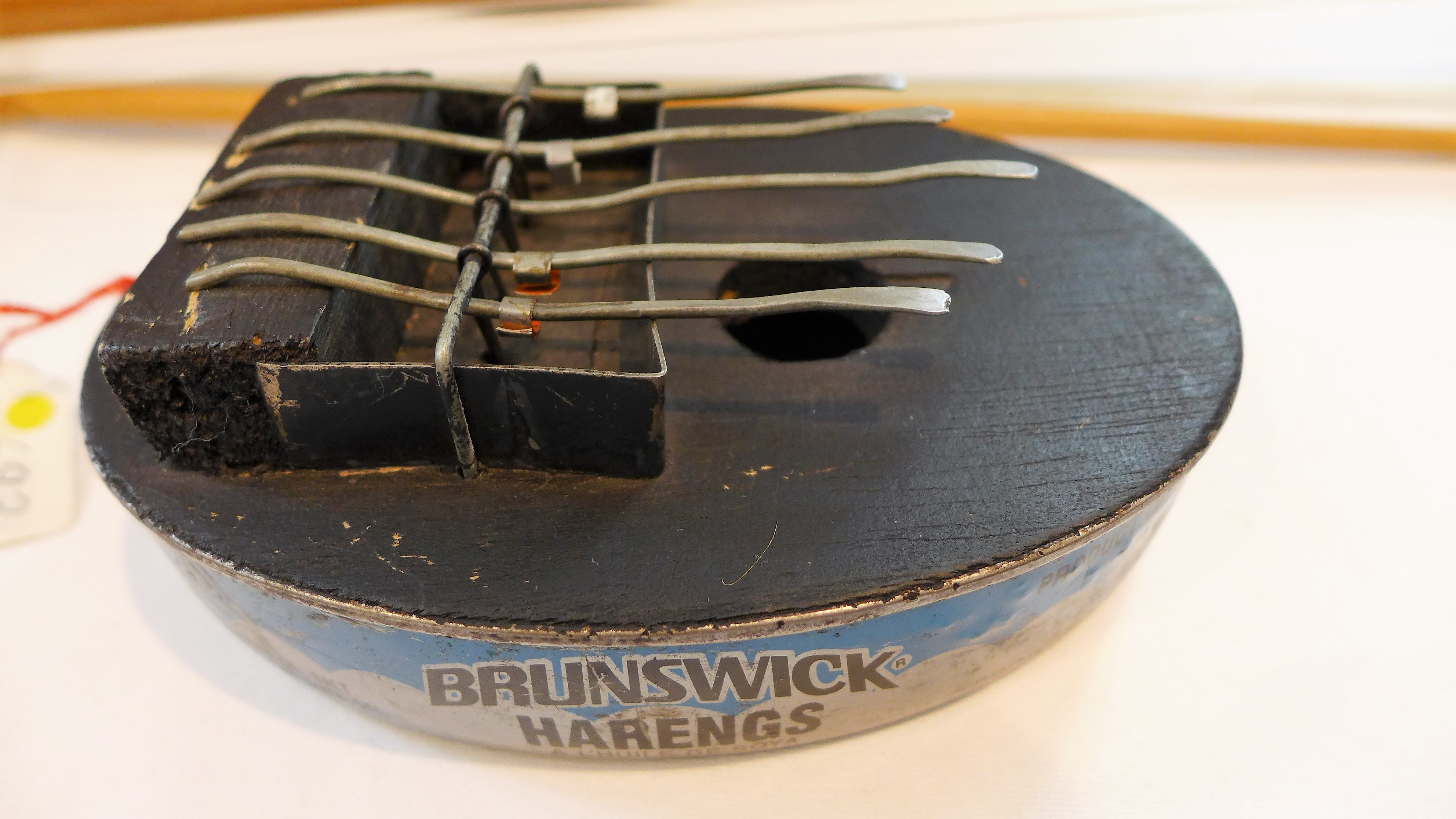 an instrument manufactured from can for herrings - original can manufactured by or in the name of Connors Brothers Limited, Blacks Harbour, New Brunswick, Canada - instrument is now owned by Center for World Music, Hildesheim, Germany - shown to public in science exhibition on May 6 2017 in Hannover, Germany